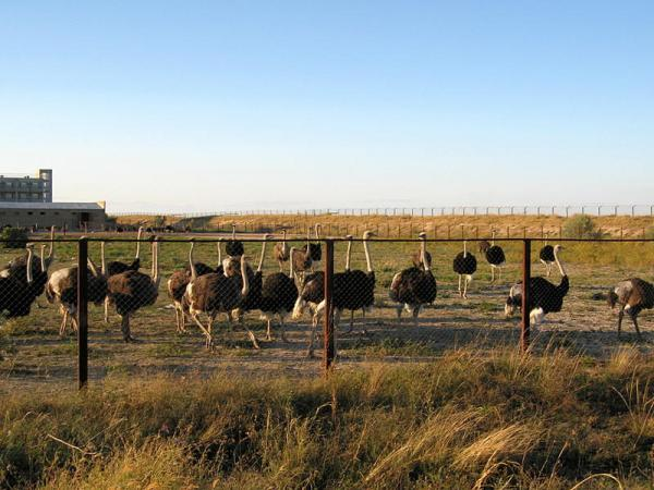 Ostridge farm near Strilkove, Kherson Oblast, Ukraine